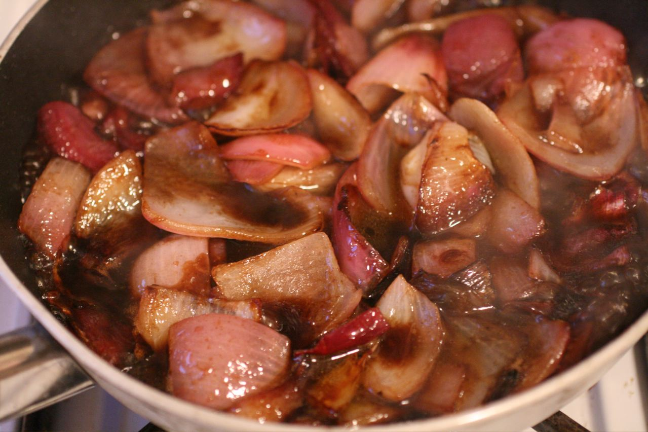 A saucepan of Salmon with Agrodolce Sauce. The agrodolce sauce was made by sauteeing onions, and then reducing them in a mixture of balsamic vinegar, sugar, and salt, and then stirring in a bit of butter. Photo taken with a Canon EOS Digital Rebel XTi digital camera. Further information about this recipe found at